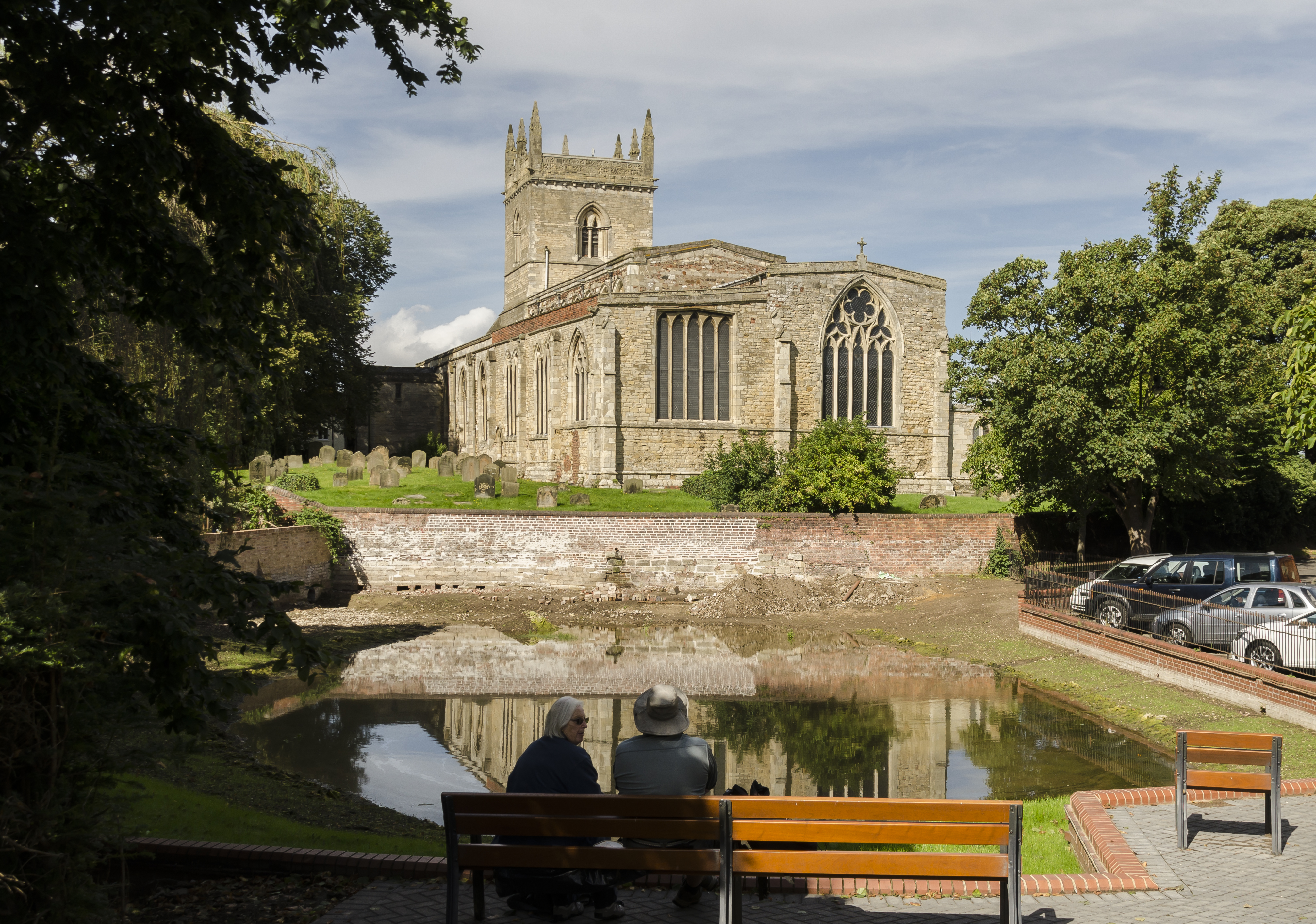 Barton on Humber has two churches located close to each other, the older being Saint Peter's which dates from the late 10th century, and is mentioned in the Domesday Book of 1086. It is unsure why a second church was built, although Saint Peter's was much smaller at the time, and the town was prosperous. St Mary's dates from the 12th century onwards, and has a nave with north and south aisles, a western tower, a chancel with south Chapel, and a south porch with parvis. The north arcade dates from the mid to late 12th century, and is of five bays plus a taller, later eastern arch. The piers are circular and the round arches have zigzag decoration. The south arcade is of four bays and dates from circa 1300. It has octagonal columns similar to those in Lincoln Cathedral, topped with water leaf capitals. Both the aisles were later enlarged. The tower dates from the 13th century, and has decorated parapets with eight pinnacles from a later date. There was initially a spire on top. The tower arch has stiff leaf capitals and keeled shafts. The south porch has a reset early 13th century archway, and an upper chamber with a door high in the nave, once reached by a stairway. In the 14th century the south chapel was built with a three bay arcade towards the chancel. The capitals contain a number of green men, many of its windows are reused In the 15th century a clerestory was added to the nave. The east window of the chancel was reduced in height when the gabled roof was lowered. There is a brass from the 15th century in the chancel floor and the remains of a 17th-century monument with only a black marble column still standing. There is a three manual organ by Forster and Andrews. Most of the windows are clear glass.